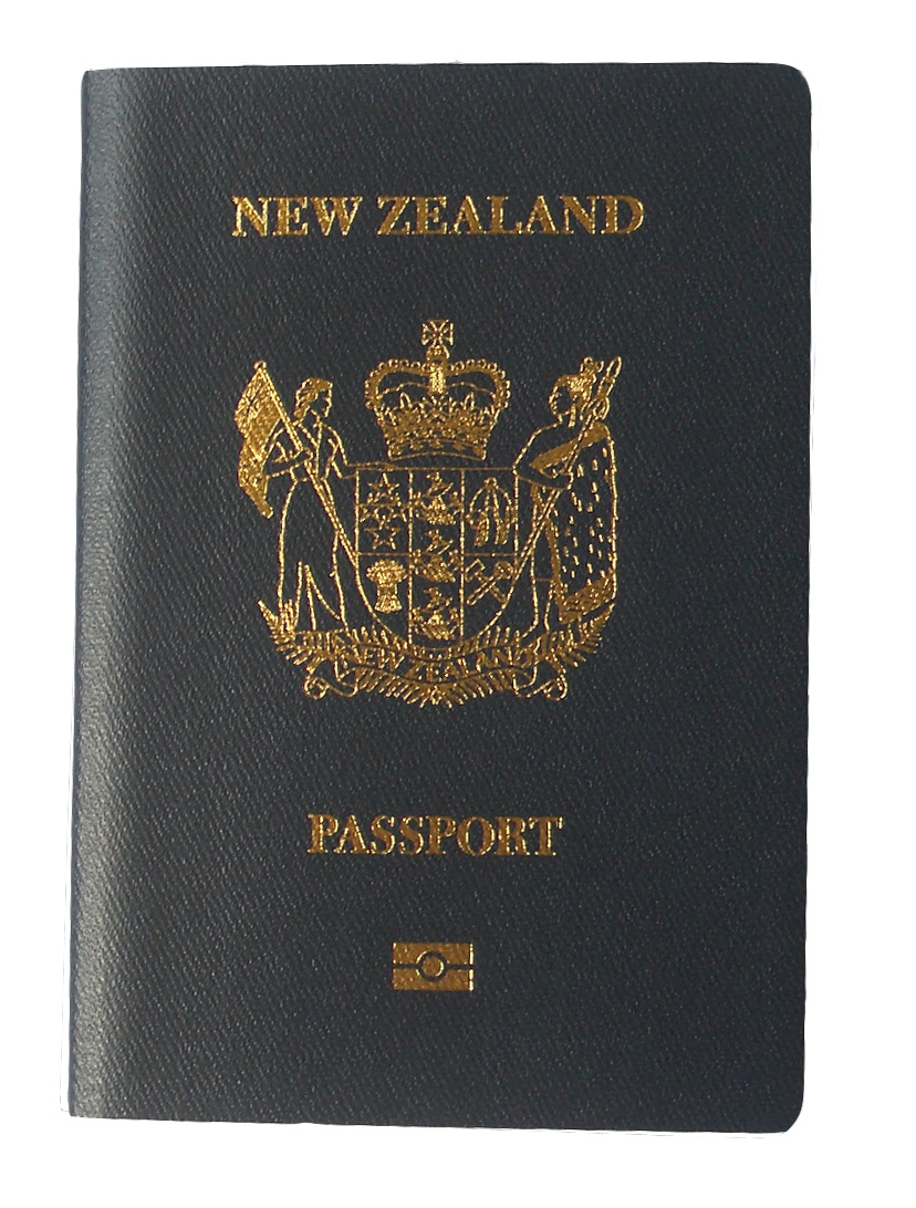 The cover of New Zealand e-passport